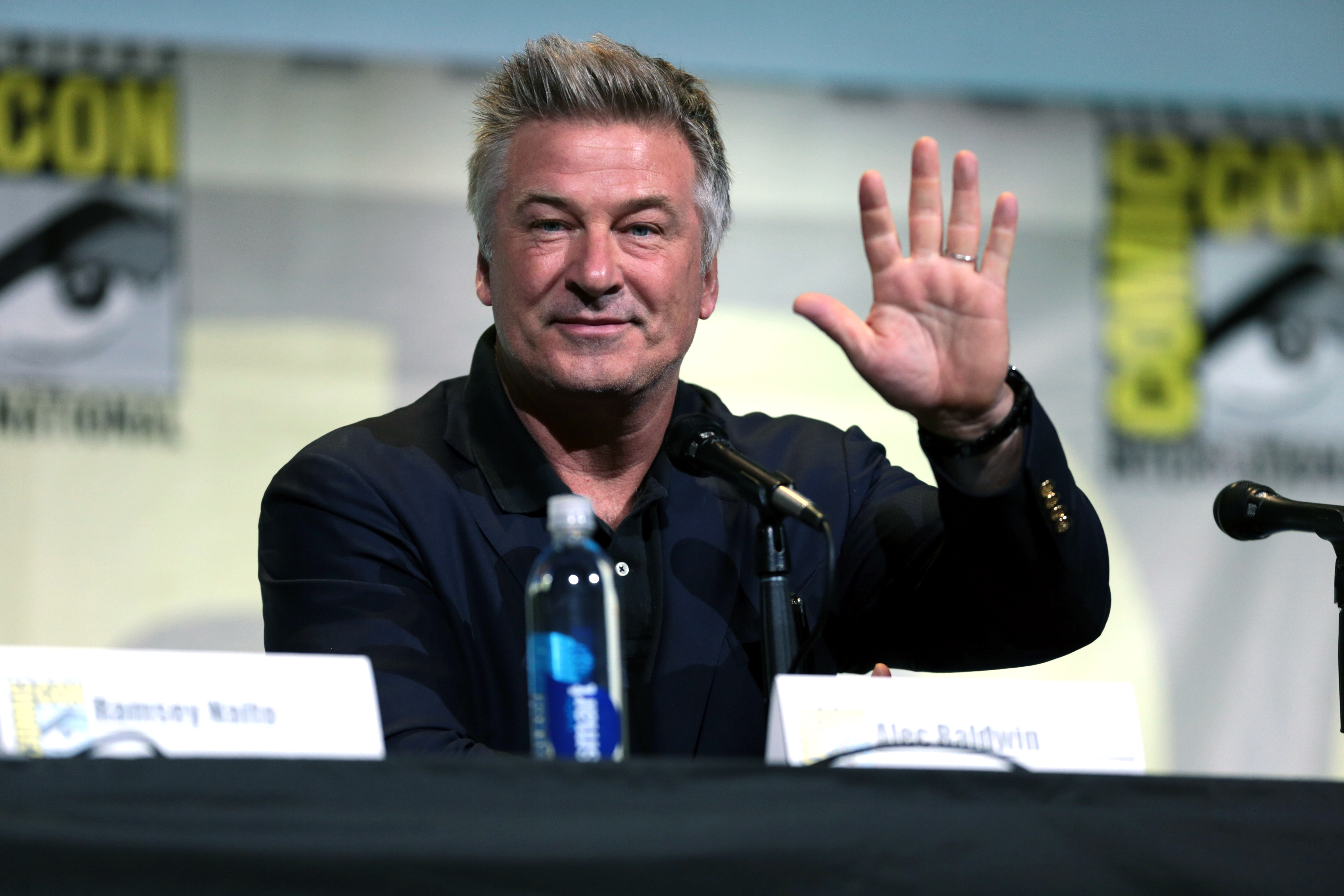 Alec Baldwin speaking at the 2016 San Diego Comic Con International, for "The Boss Baby", at the San Diego Convention Center in San Diego, California.